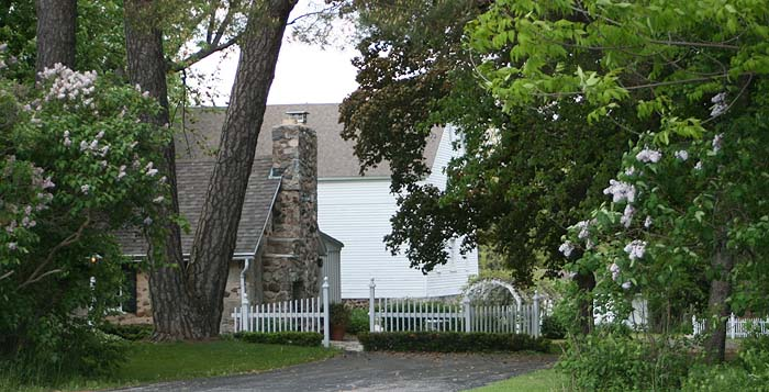 The William F. Jahn Farmstead, a National Registered Historic Place, in Mequon, Wisconsin.